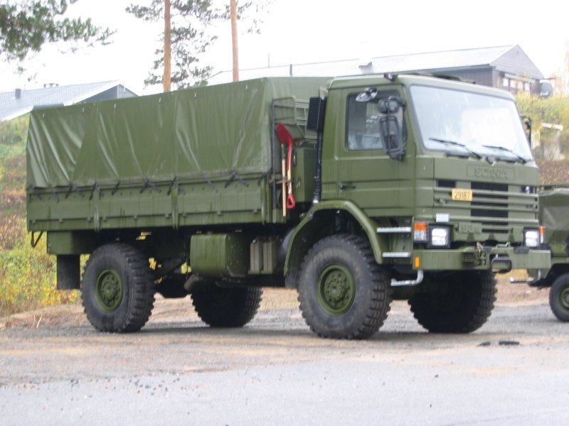 Norwegian military Scania 93M lorry. Kongsberg, Norway 2005-10-08. This picture can be found in gallery Scania AB